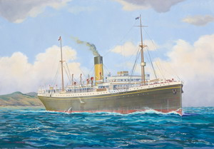 SS Zealandic